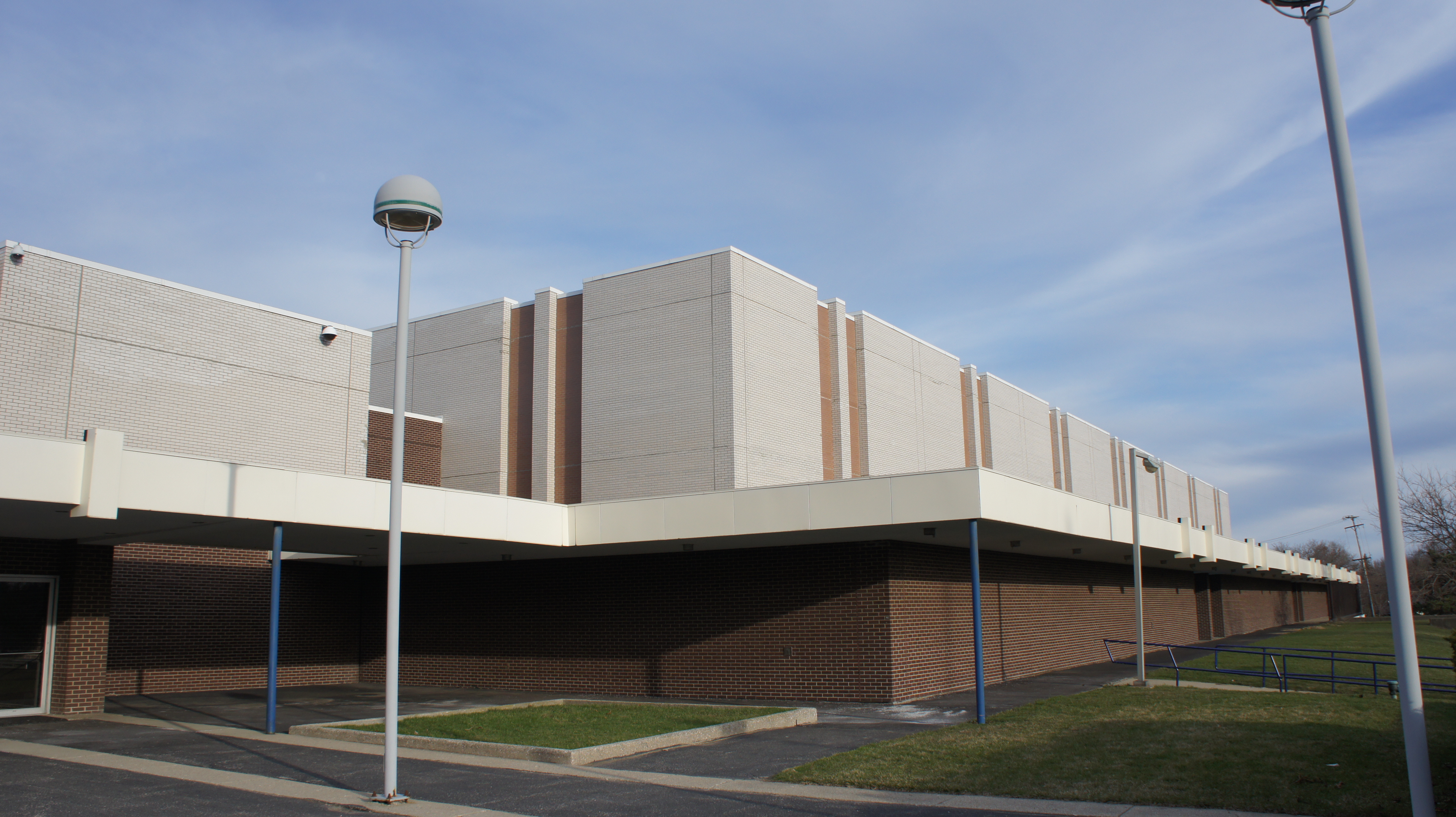 Dort Federal Credit Union Event Center - Exterior